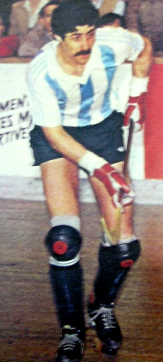 Daniel Martinazzo. Hockey roller (Hockey sobre patines). Argentina